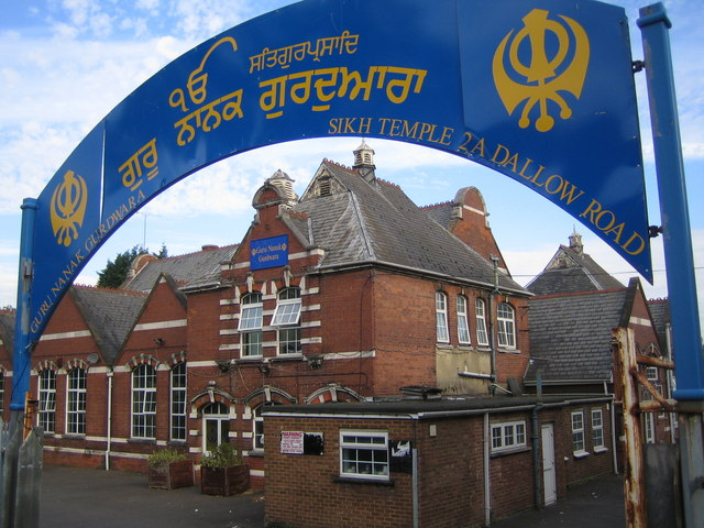 Luton: Guru Nanak Gurdwara Sikh Temple A former school building in Dallow Road converted for use as a Sikh Temple. The Temple's website is here ਪੰਜਾਬੀ: ਗੁਰੂ ਨਾਨਕ ਗੁਰਦੁਆਰਾ, ਲੂਟਨ